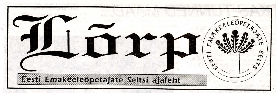 Newspaper